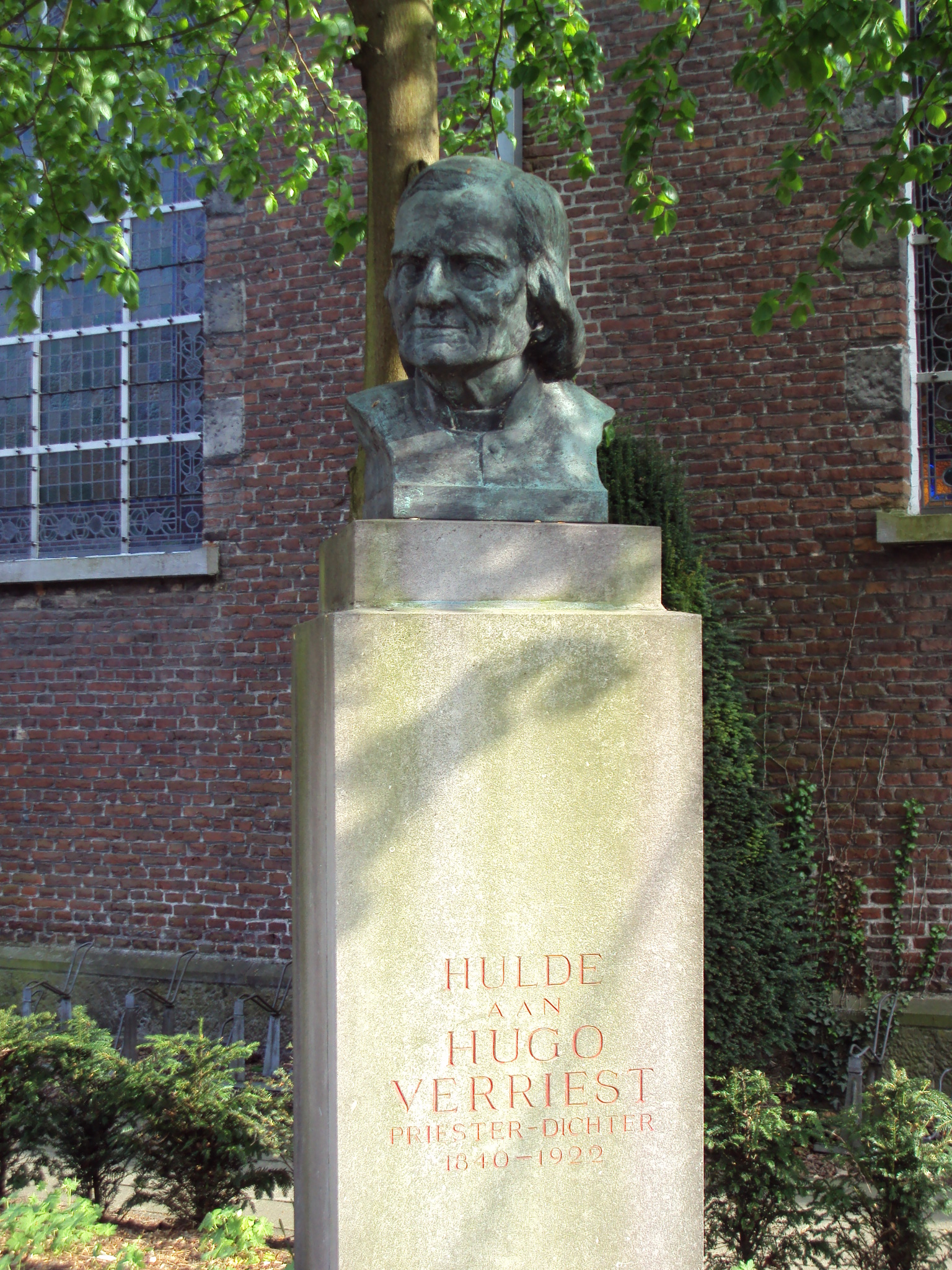 Bust of Hugo Verriest next to the St Columba church